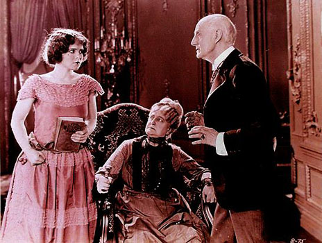 Publicity shot, Clara Bow, Kate Lester, and Tom Ricketts in Black Oxen (1923).